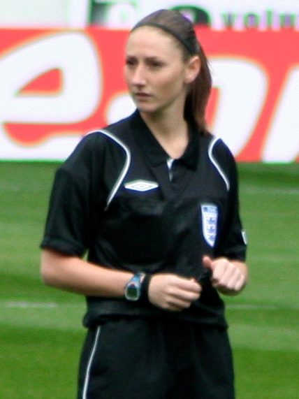 Sian Massey (left) refereeing a Bristol Academy game (FAWSL) in May 2011